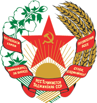 Coat_of_arms_of_Tajik_SSR.png